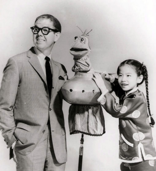 Publicity photo of Stan Freberg and Ginny Tiu with his puppet Orville from the television special "Stan Freberg Presents: Chinese New Year's Special.